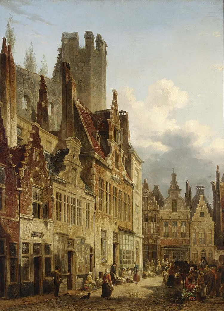 A busy market scene in the streets of Gand